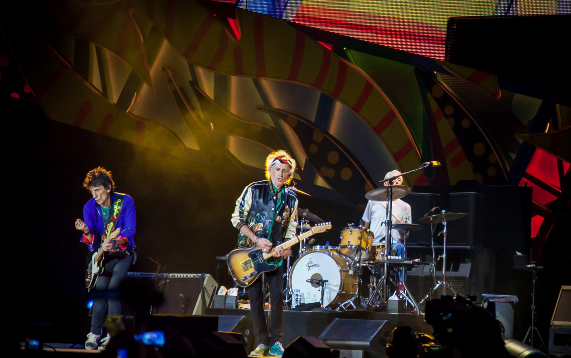 Kieth Richards & Ron Wood March 25th 2016 in Havana Cuba